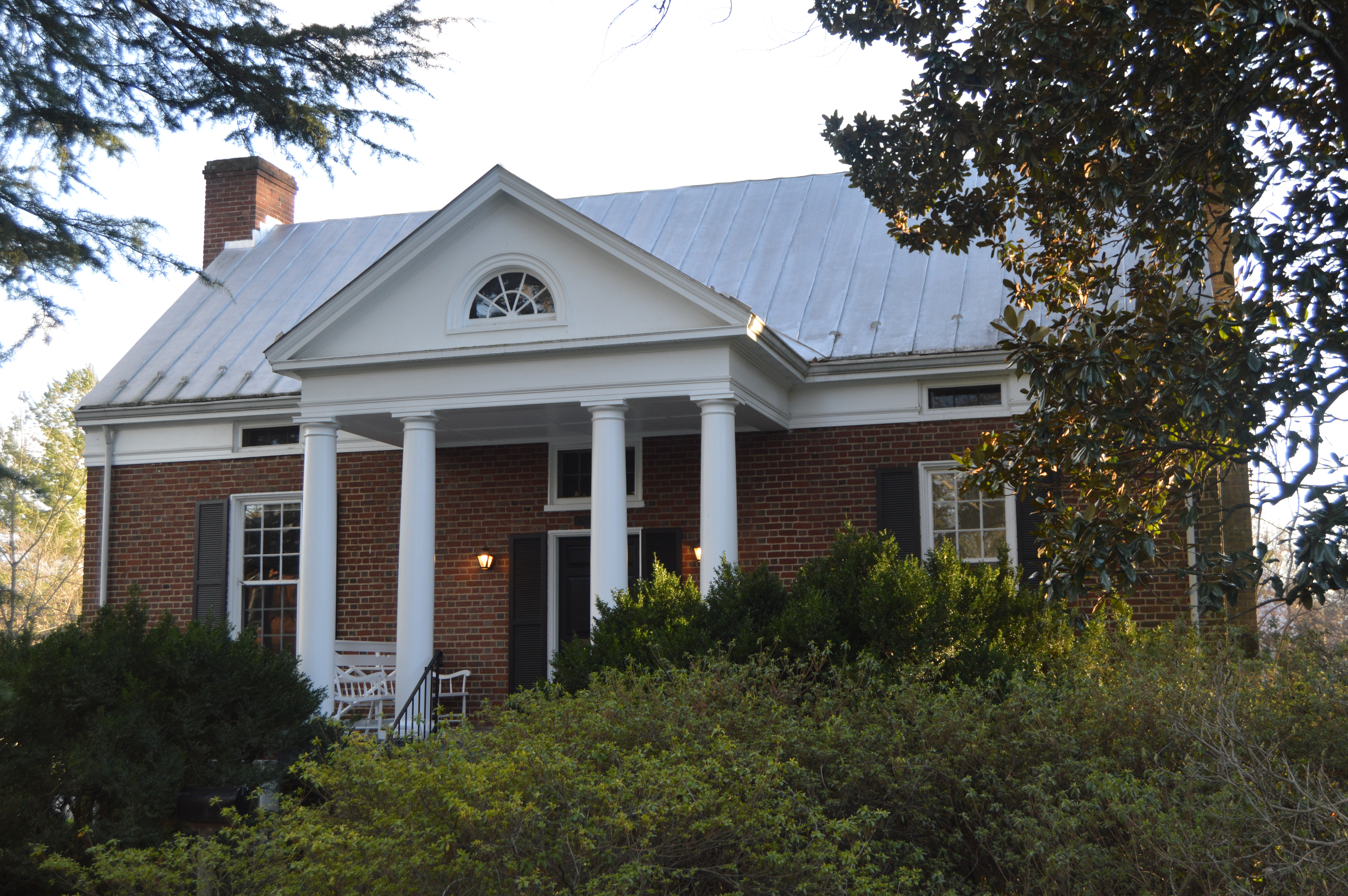 Front of Bemiss House, the offices of the University of Virginia Press, located at 210 Sprigg Lane in Charlottesville, Virginia, United States.